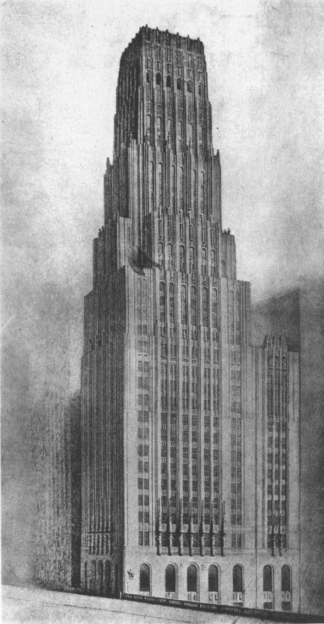 Finnish architect Eliel Saarinen's 1922 entry in the Chicago Tribune Tower design competition. Saarinen was awarded $20,000 for his second-place entry but his building was never completed. Instead, his simplified modernist stepback skyscraper design influenced many other architects.